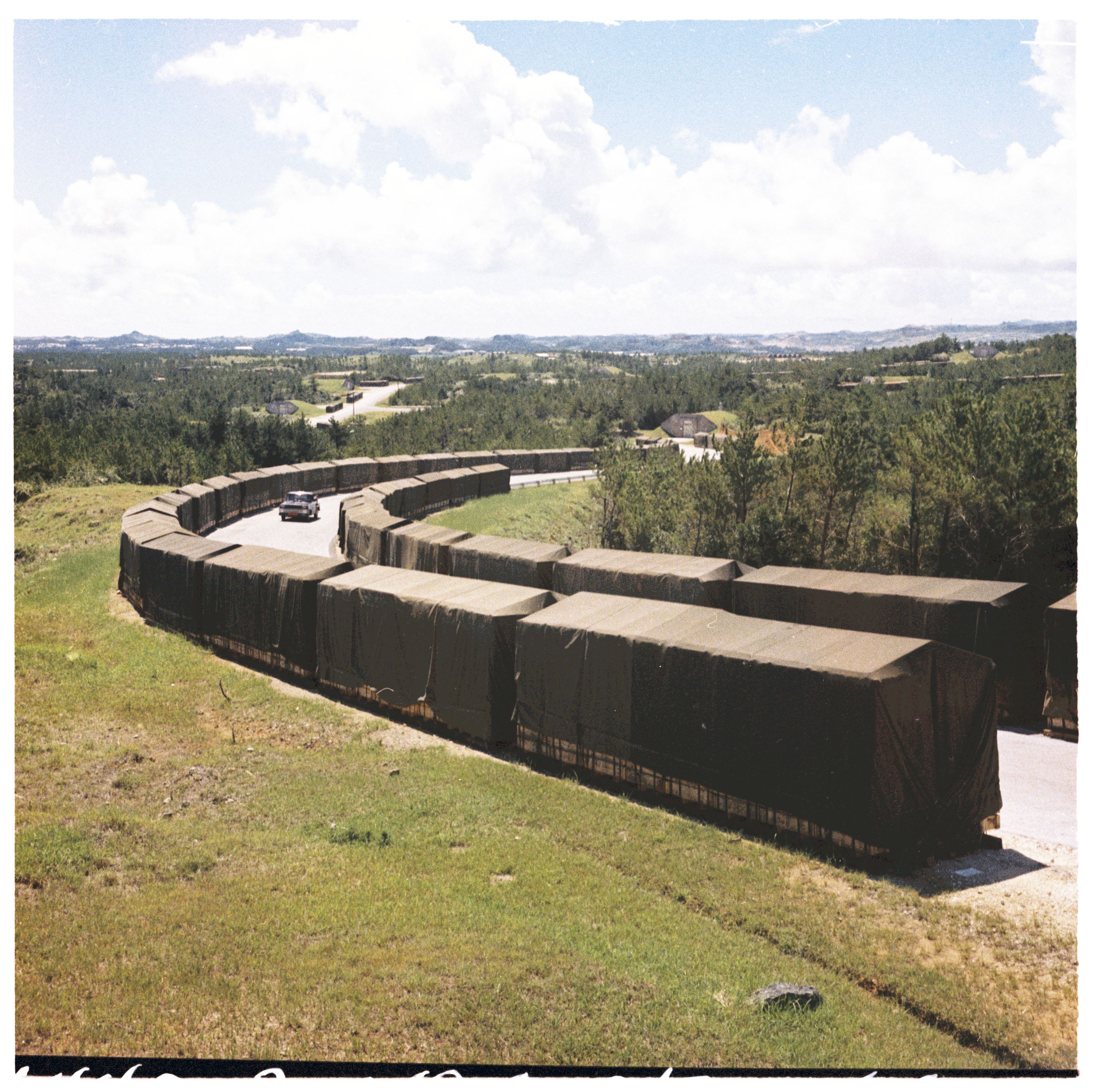 Artillery projectiles at Chibana Ammunition Depot, Okinawa, September 1966